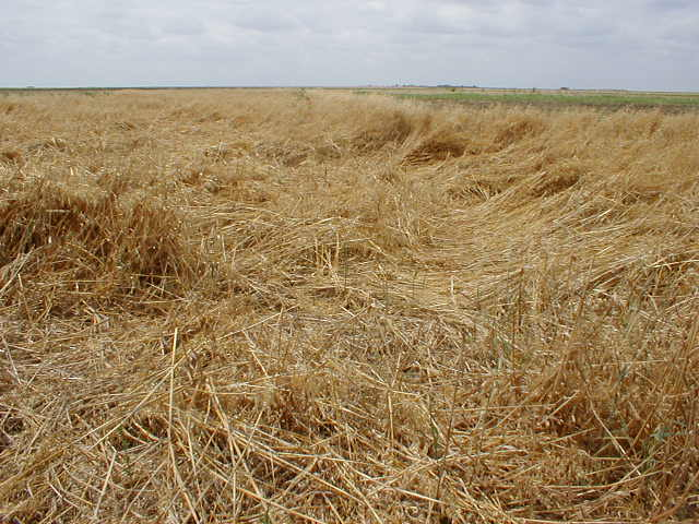 Walon: gros flaxhaedje (frumint)